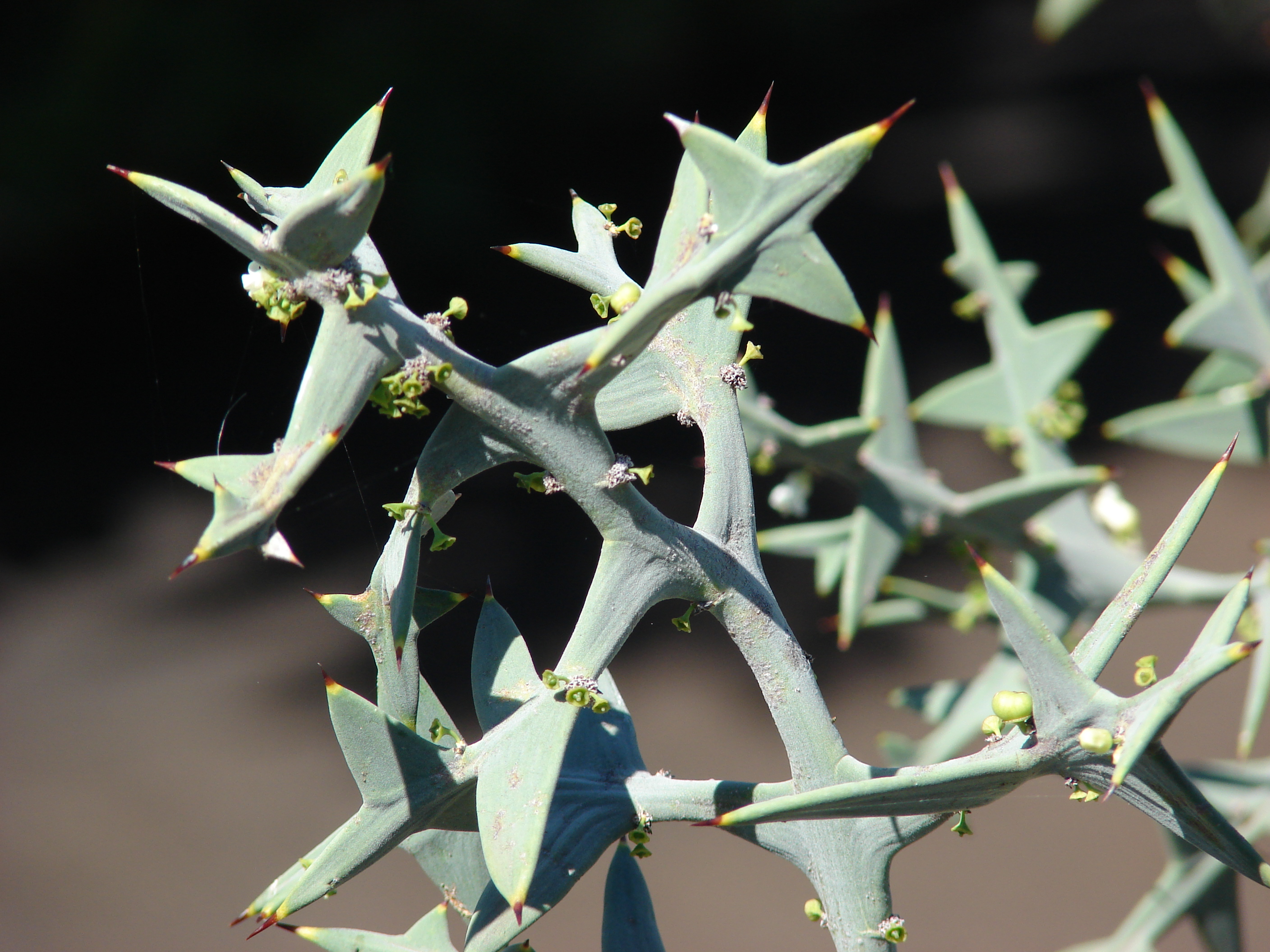 Colletia exserta (leaves and flowers). Location: Maui, Enchanting Floral Gardens of Kula